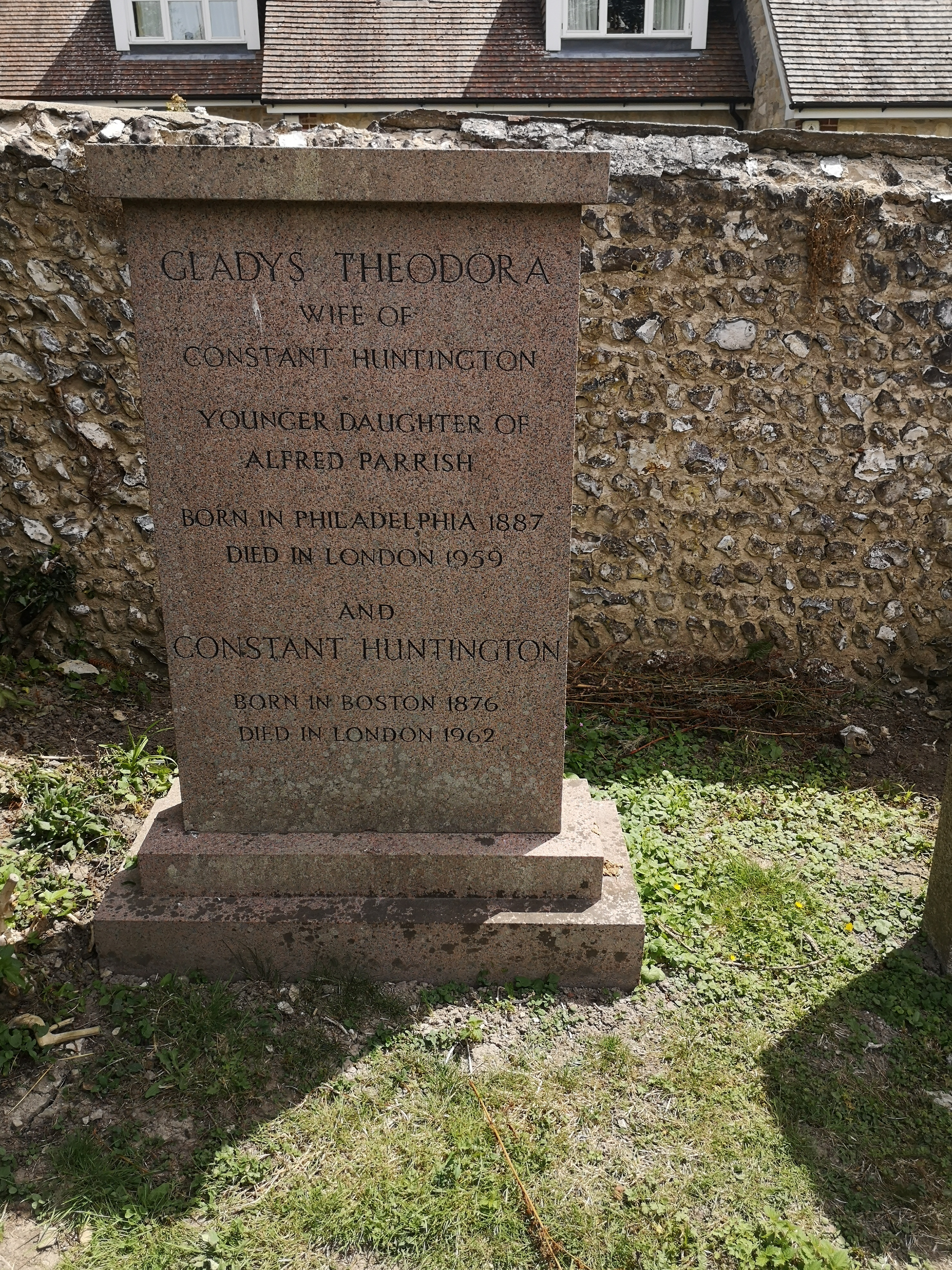 Memorial stone of Gladys Huntington (1887 - 1959), writer , St. Michael churchyard, Amberley, Sussex.